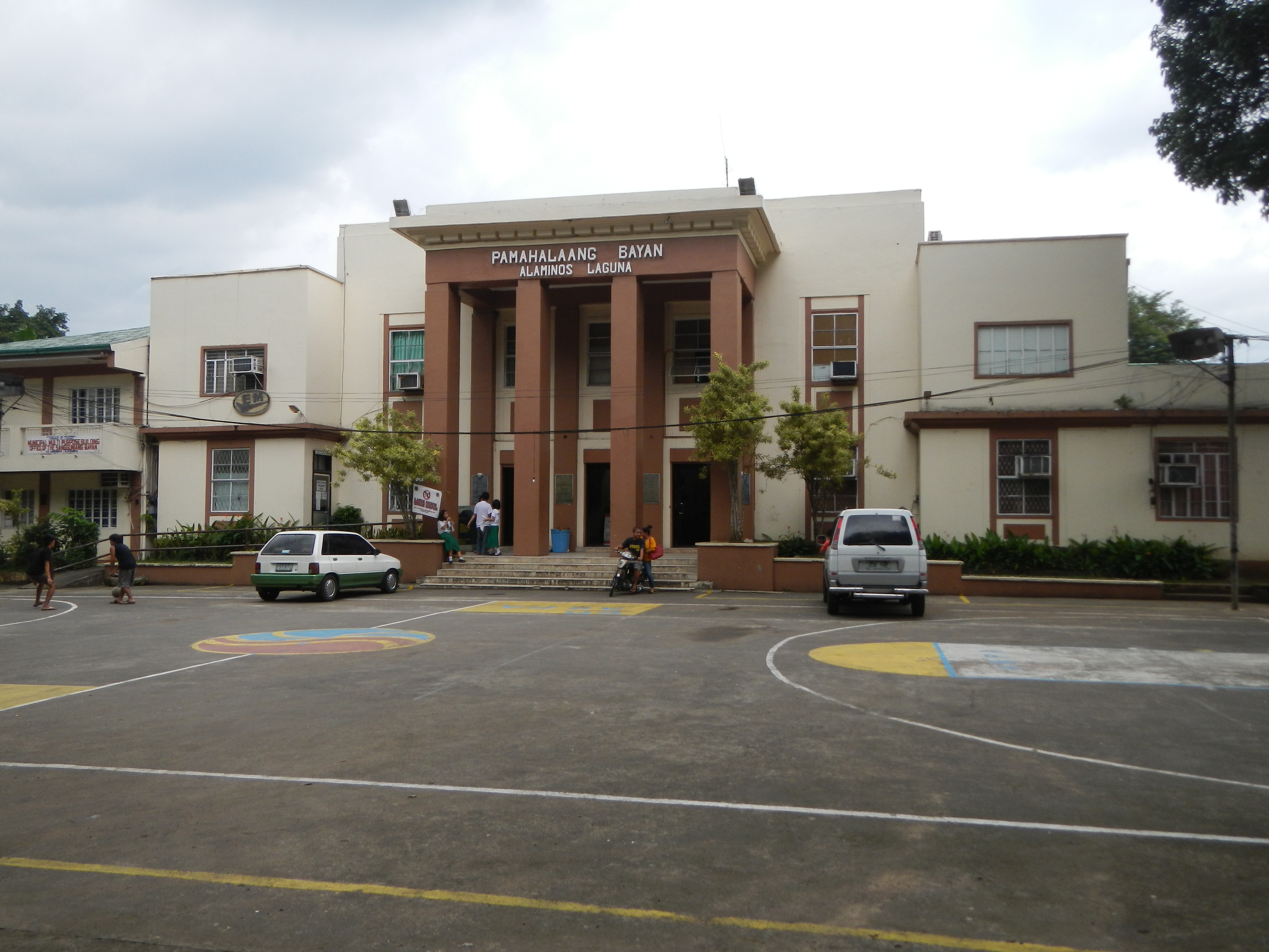 Alaminos Municipal Hall, Plaza, Legislative Building, Municipal Trial Court and other Municipal Office, etc. [1] Coordinates: 14°3'55"N 121°14'48"E [2] -- of Alaminos, Laguna[3] 2013 Election Results [4] [5]Website] Eladio M. Magampon Municipal Mayor Demetrio P. Hernandez Jr. Municipal Vice-Mayor Land Area: 5,473 has. Alaminos is a third class municipality in the province of Laguna, [6] Philippines. According to the latest census, it has a population of 40,380 people in 7,466 households. It has a land area of 21.11 square miles (54.7 km2) and is situated 48.5 miles (78.1 km) southeast of Manila. [7] Coordinates: 14°2'31"N 121°14'50"E [8] Geographical location: Laguna, Region 4, Philippines, Asia Geographical coordinates: 14° 3' 46" North, 121° 14' 53" East This place is situated in Laguna, Region 4, Philippines, its geographical coordinates are 14° 3' 46" North, 121° 14' 53" East and its original name (with diacritics) is Alaminos.